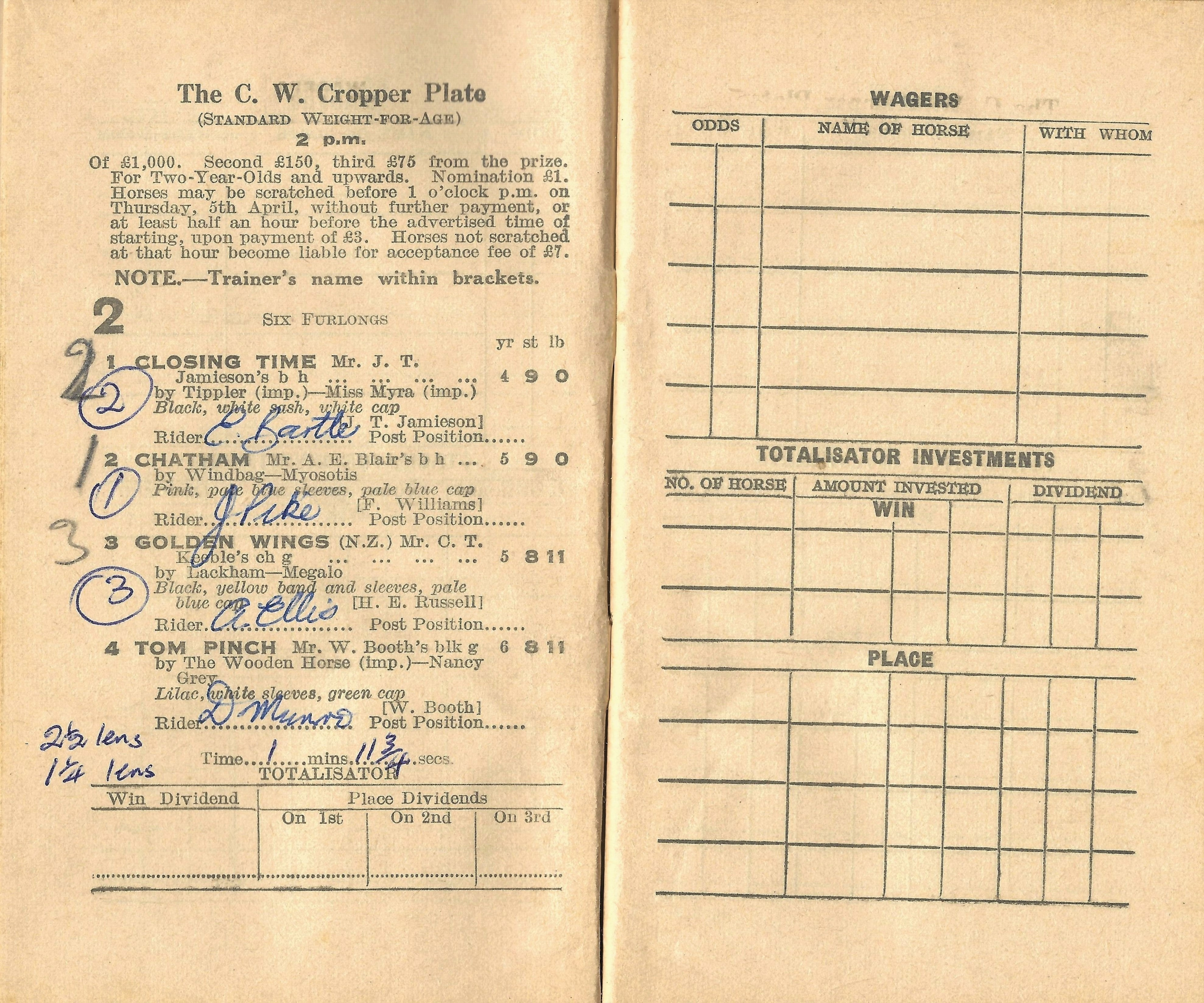 COPIED FROM ORIGINAL RACEBOOK